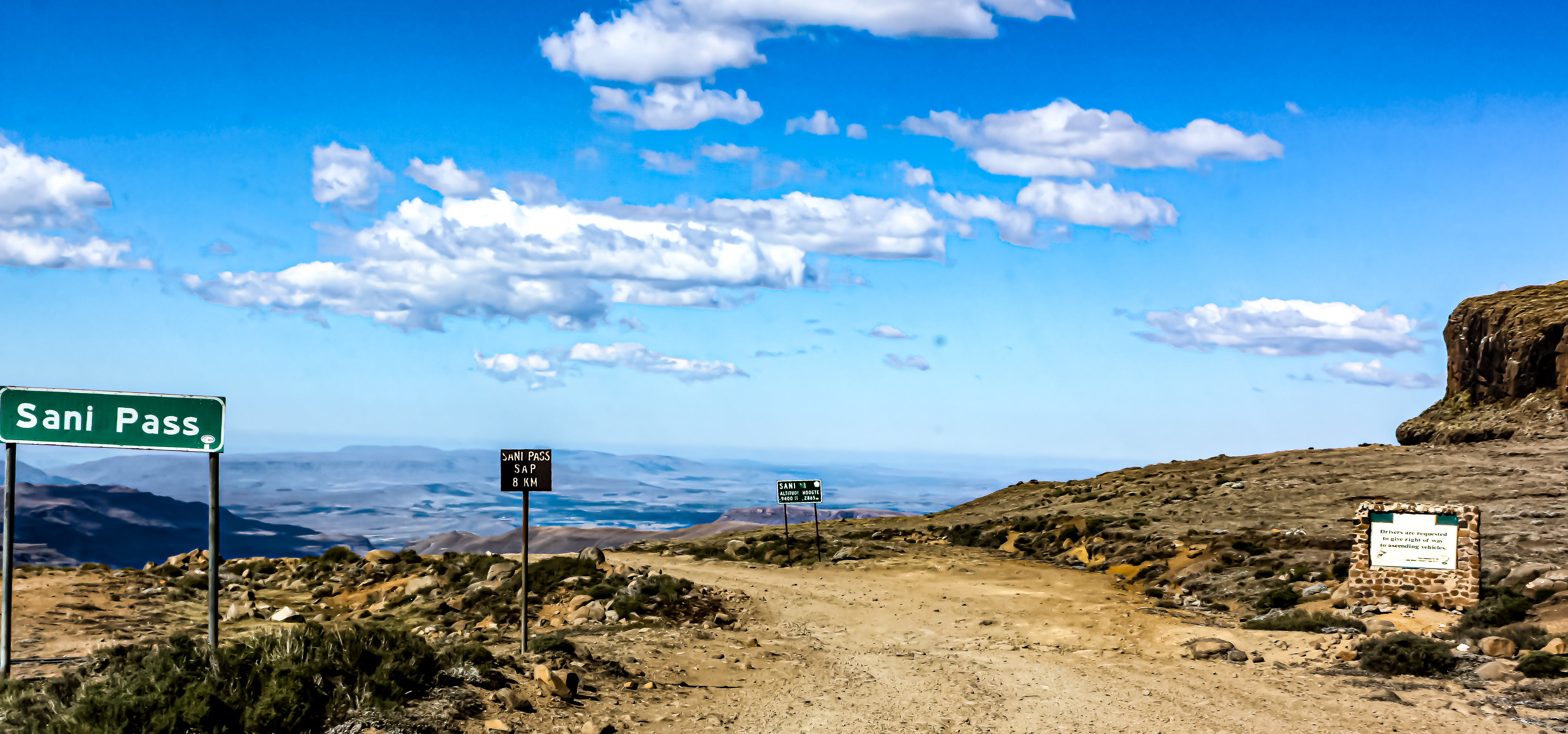 This is an image with the theme "Africa on the Move or Transport" from: Lesotho